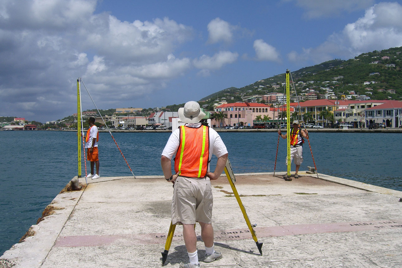 NOAA's National Geodetic Survey employees level to a pier as part of a larger island-wide project to provide St. Thomas, U.S. Virgin Islands with a vertical datum. (Original source: National Ocean Service Image Gallery)